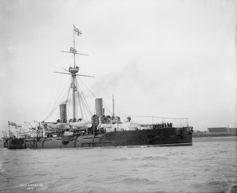 Photograph of British cruiser HMS Imperieuse.